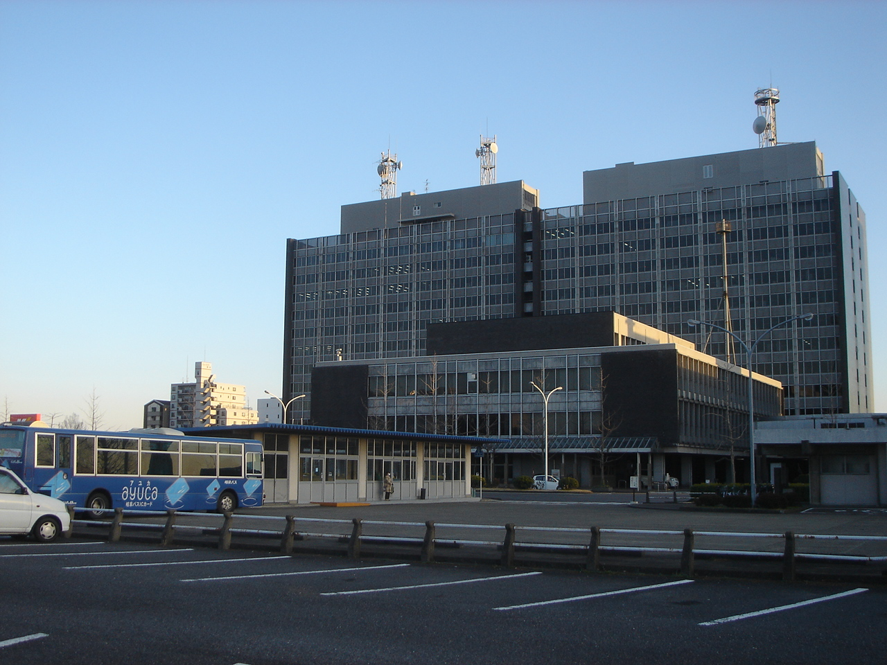 Gifu Prefectural Office, Gifu, Gifu, Japan.